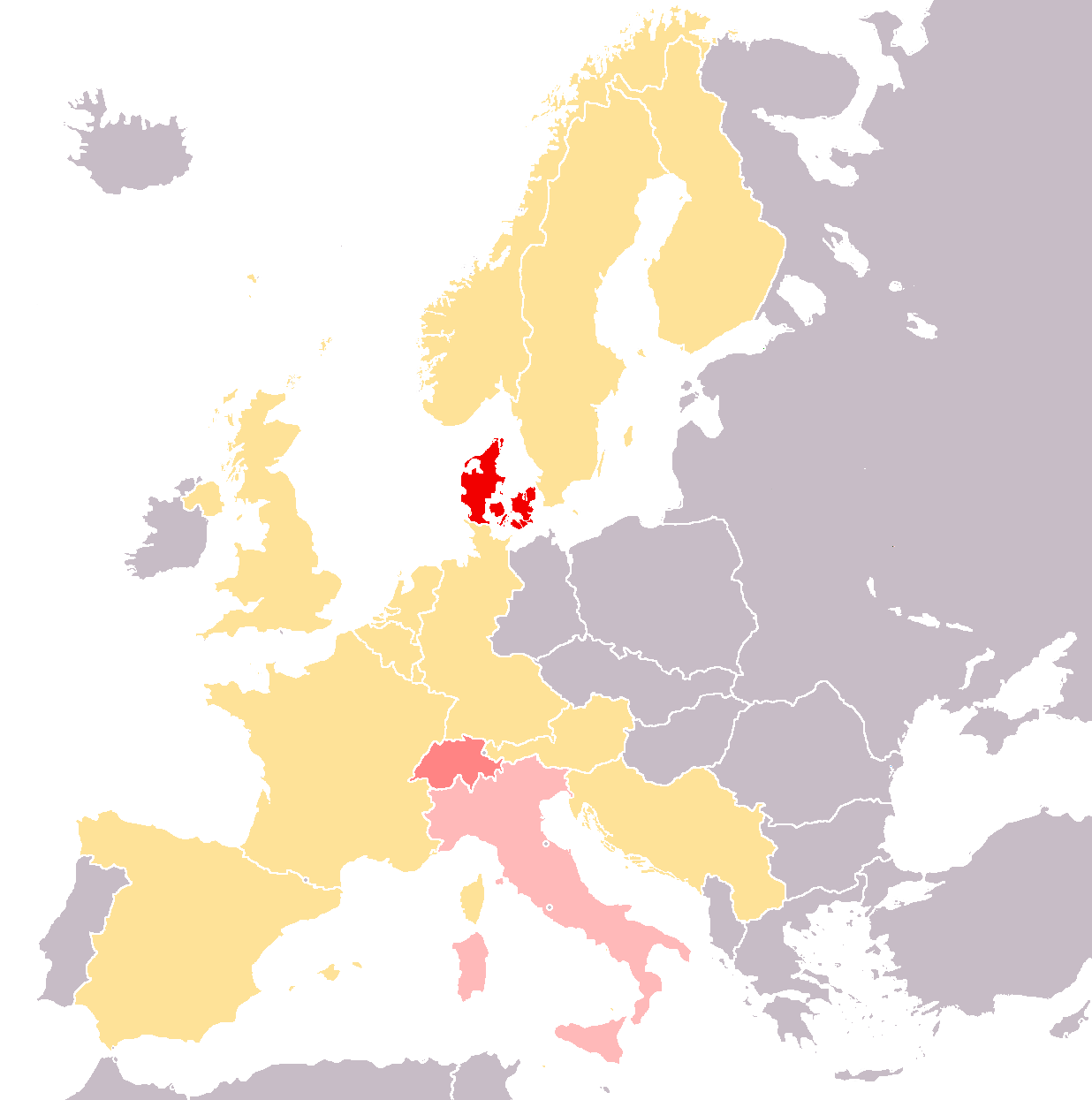 Map of Eurovision 19563